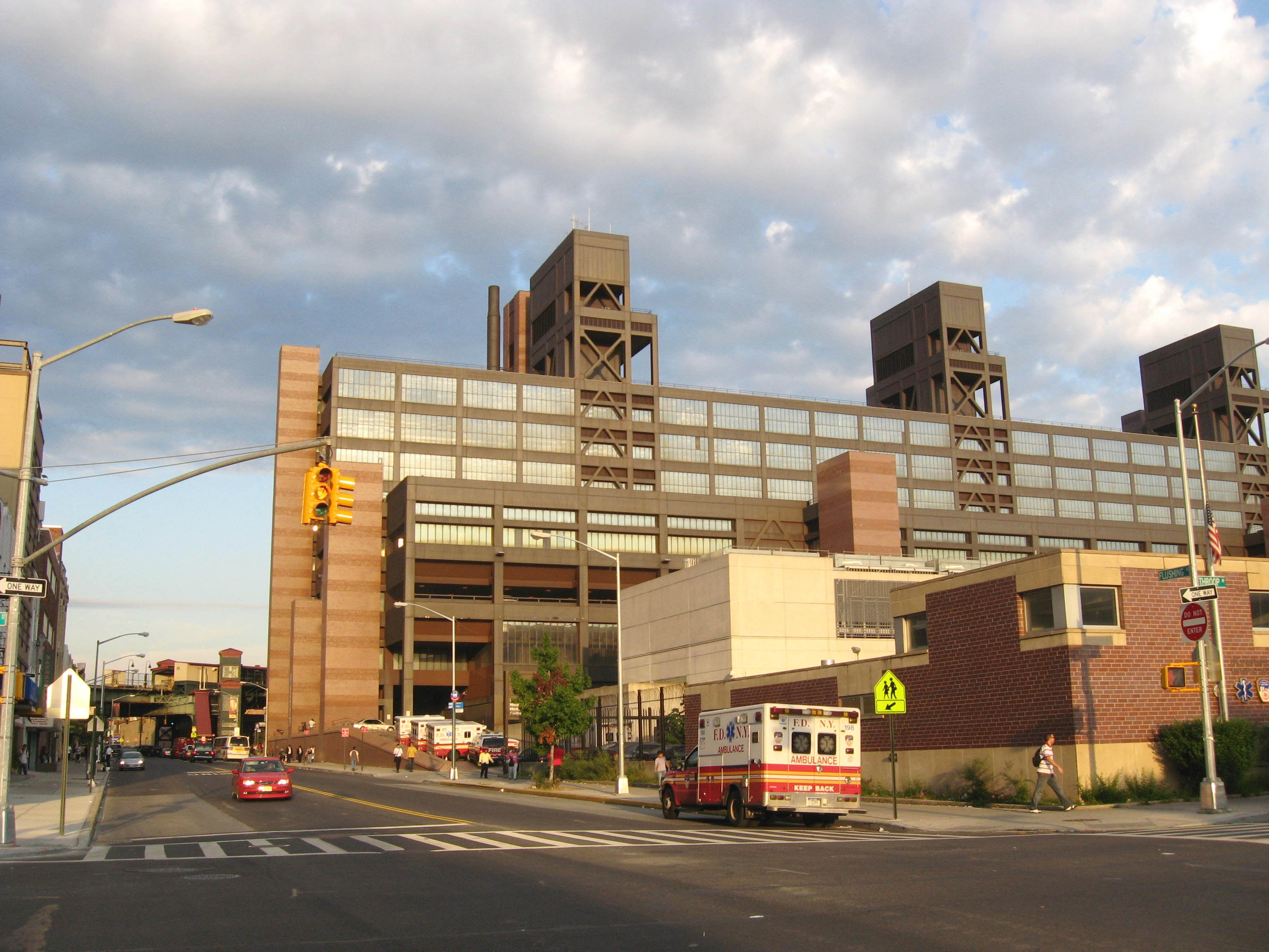 Looking east across Throop Avenue and along Flushing Avenue at Woodhull Medical and Mental Health Center with Image:Flushing Av BMT J sta jeh.JPG on left.